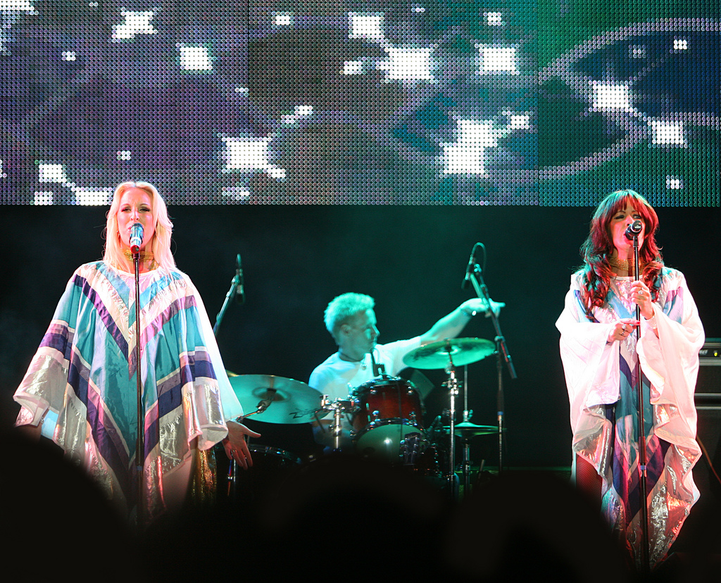 ABBA 2008,7,31 Reprint from Flickr Arrival, a revival Band covering ABBA at the LGBT event Europride 2008 in Stockholm.